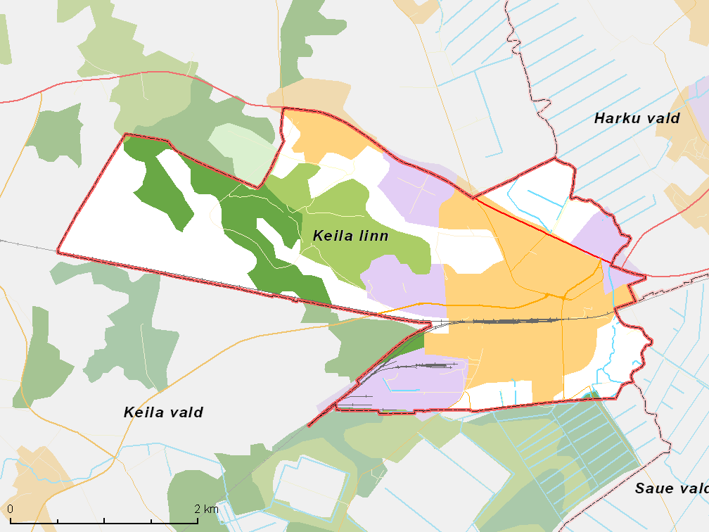 Map of municipality in Estonia